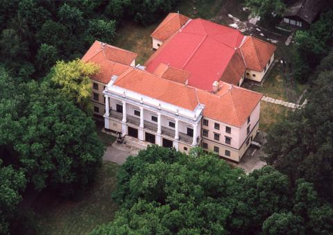 Tarhos, Hungary, aerialphotography (Wenckheim Mansion)